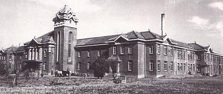 Daido Gakuin